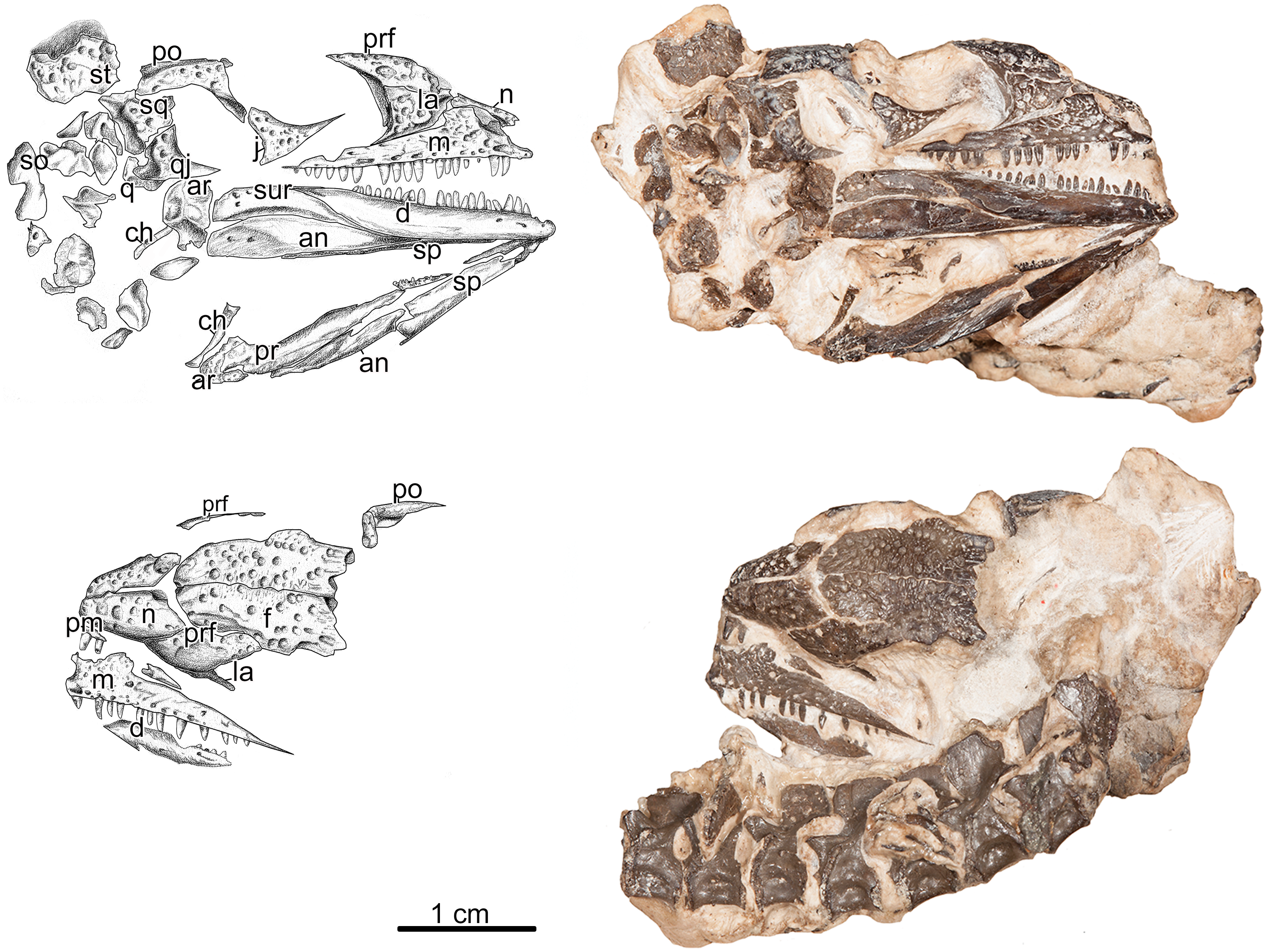 Delorhynchus cifellii, OMNH 77675. (A) Interpretive drawing and (B) photograph of skull and mandible in lateral view. (C) Interpretive drawing and (D) photograph of skull in dorsal view. The set of vertebra exposed on the dorsal side does not belong to this specimen. Abbreviations: an, angular; ar, articular; ch, ceratohyal; d, dentary; f, frontal; j, jugal; la, lacrimal; m, maxilla; n, nasal; pal, palatine; pf, postfrontal; pm, premaxilla; po, postorbital; prf, prefrontal; q, quadrate; qj, quadratojugal; so, supraorbital; sp, splenial; sq, squamosal; st, supratemporal. Scale bar equals 1cm.